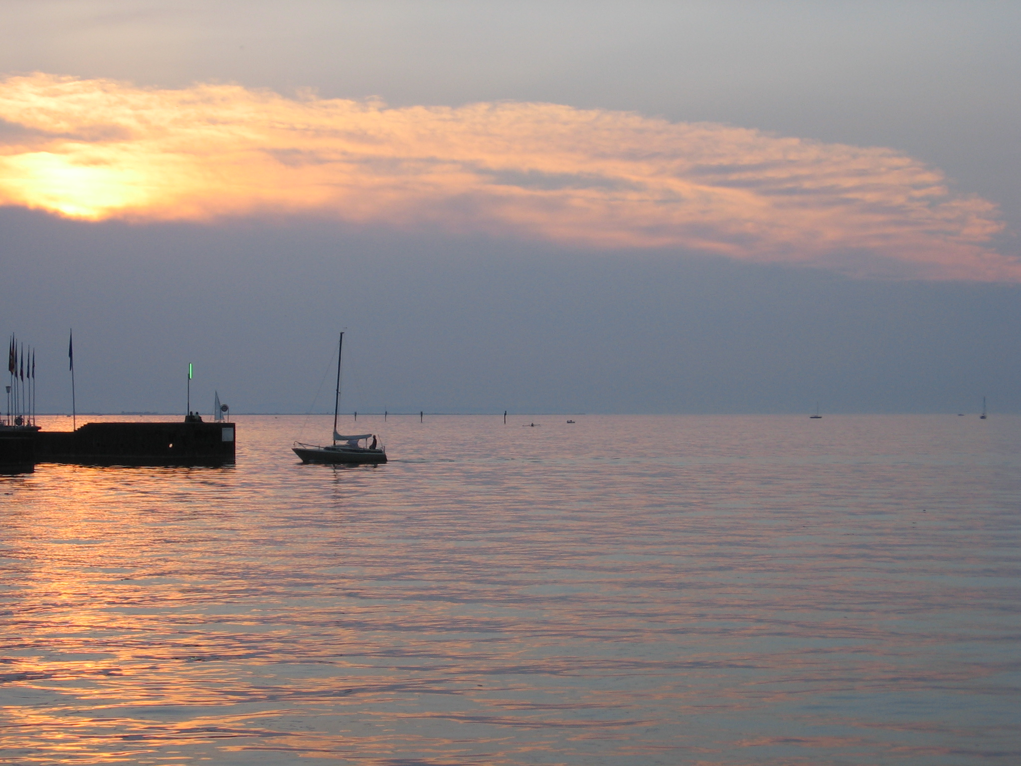 Sunset over Bodensee in Bregenz (Austria)